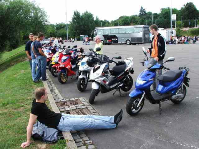 Scooter comunity.